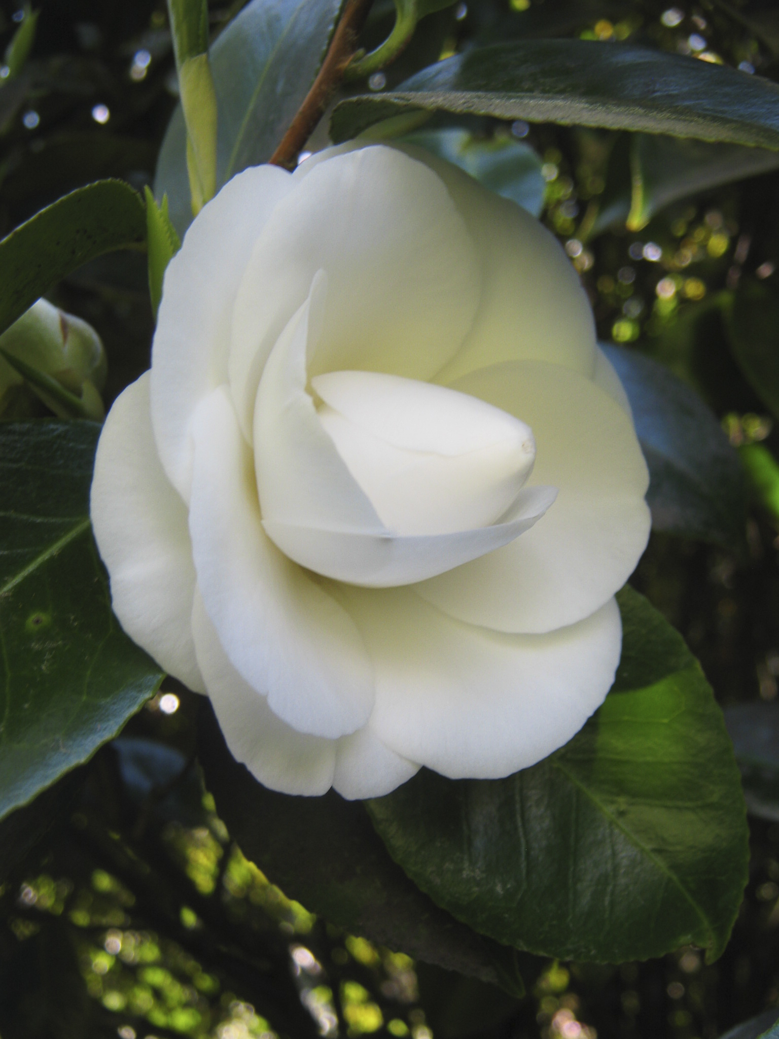 Camellia japonica 'Janet Waterhouse' by E.G. Waterhouse 1952; photographed in the National Rhododendron Garden, Olinda, Victoria